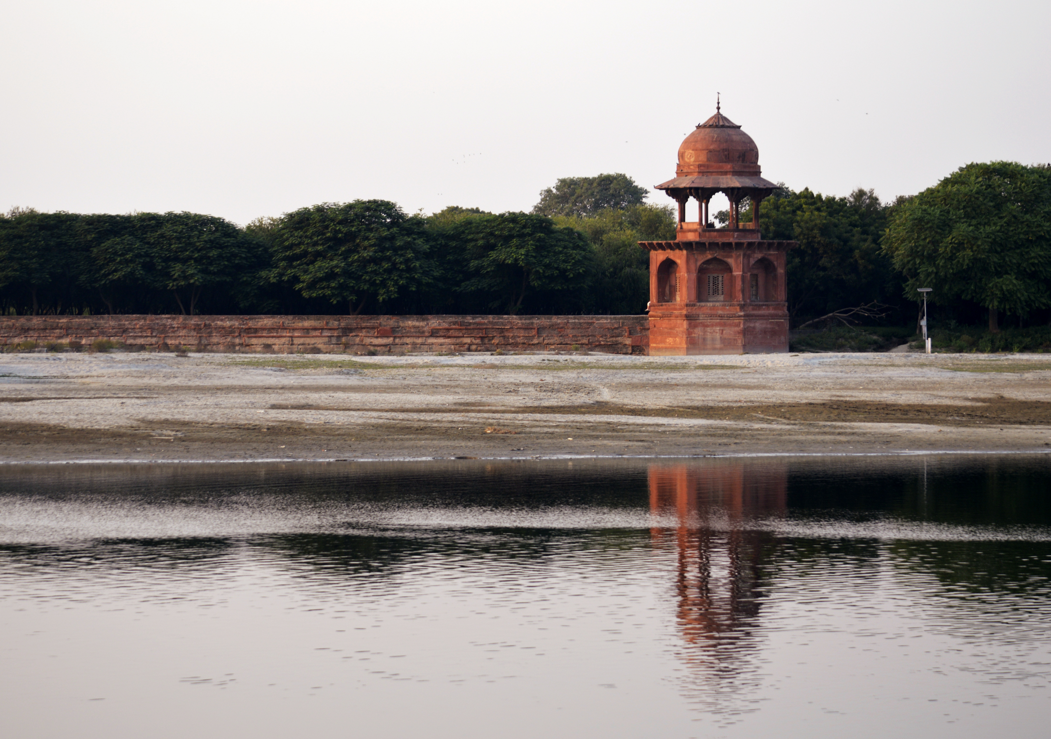 Pavilion opposite the Taj Mahal, Agra, India.